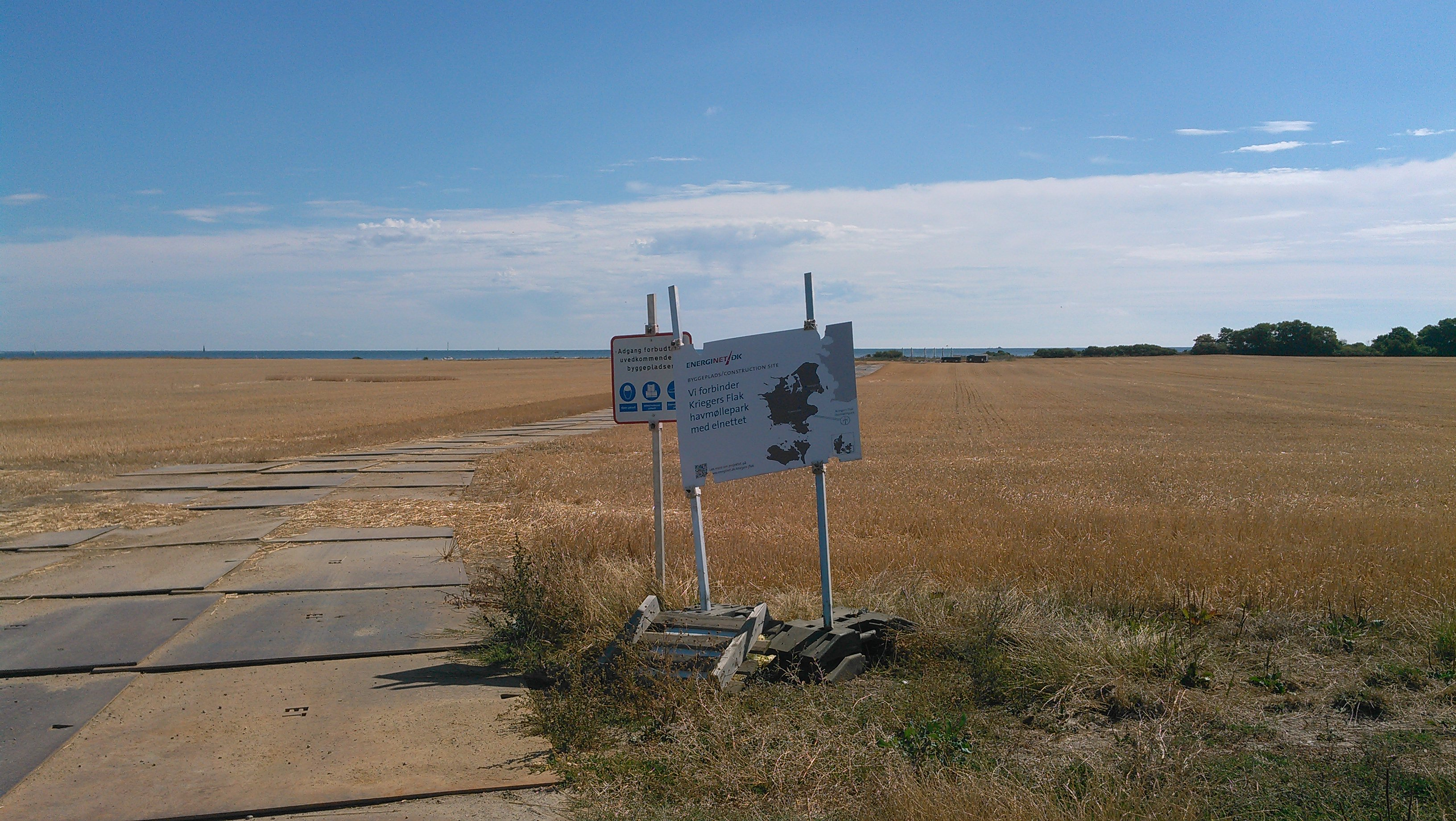 The onshore construction site in Denmark for Krieger's Flak Wind Farm.